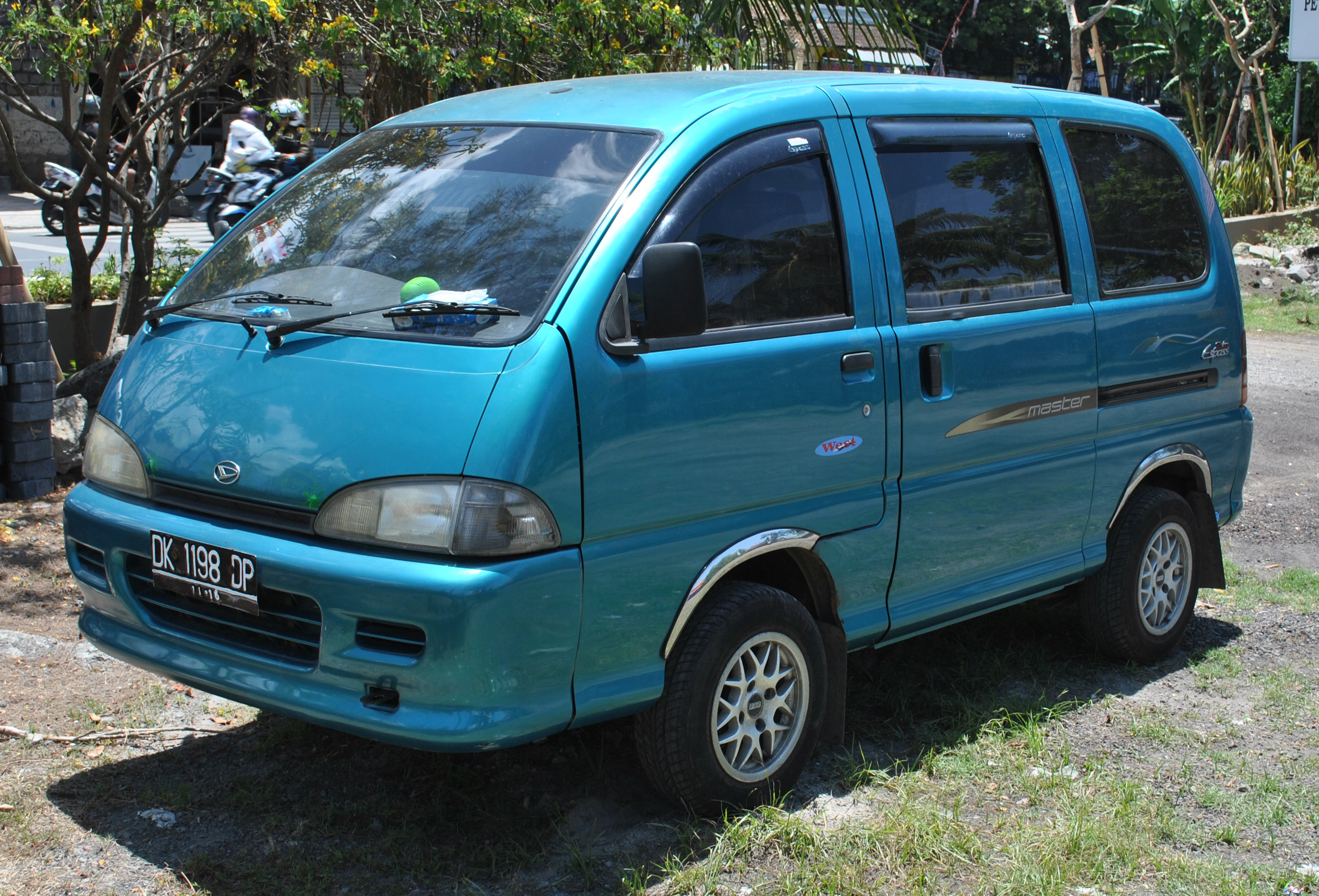 Front view of a Daihatsu Zebra photographed at Tuban, Badung, Bali.